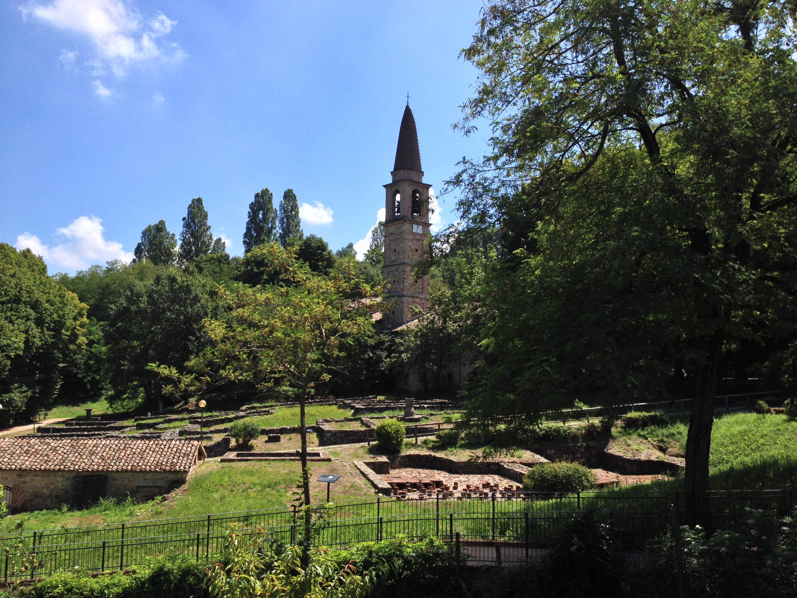 Velleia o Veleia Romana